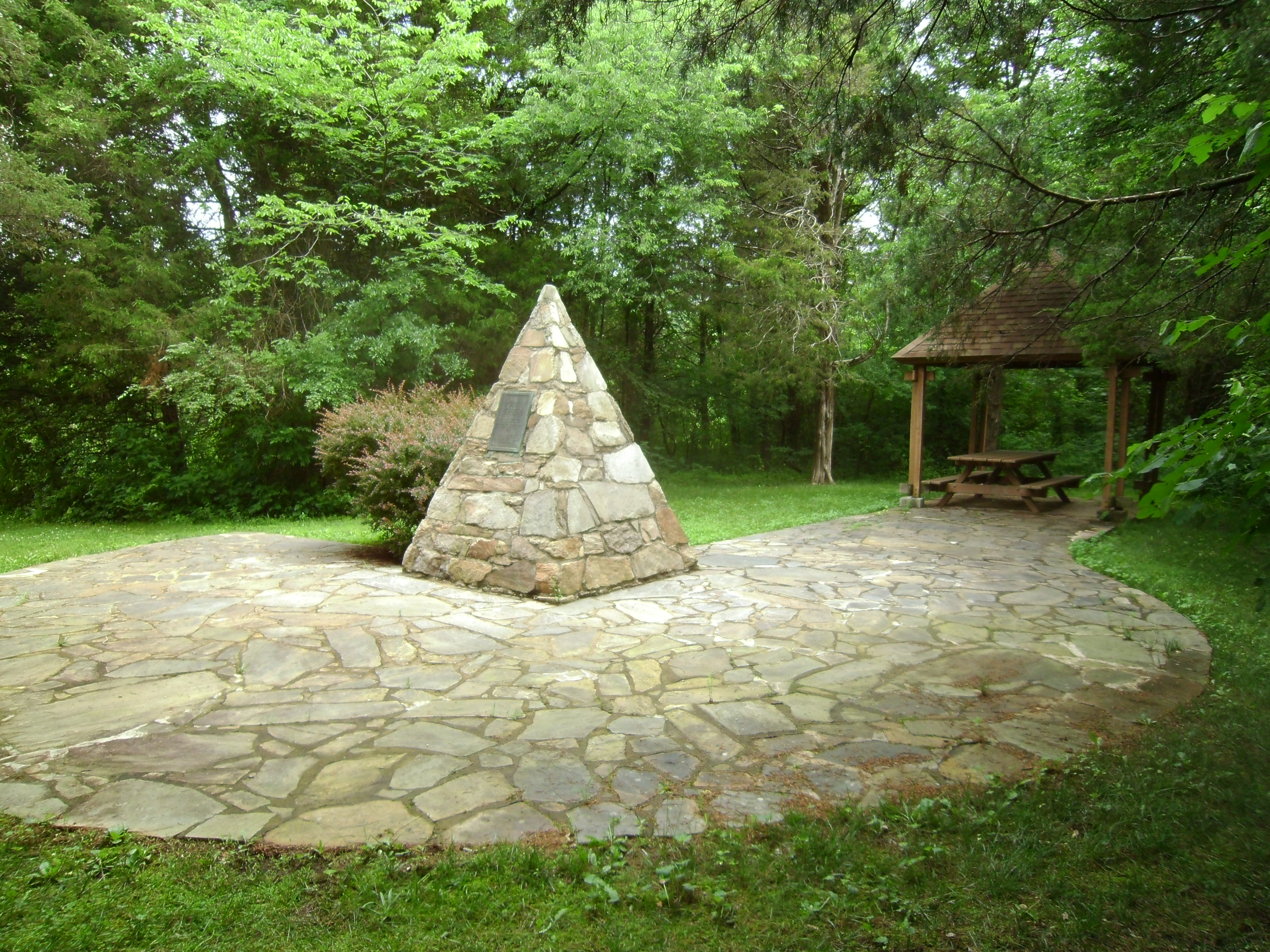 Pyramid-shaped monument on the site of the birthplace of John Marshall